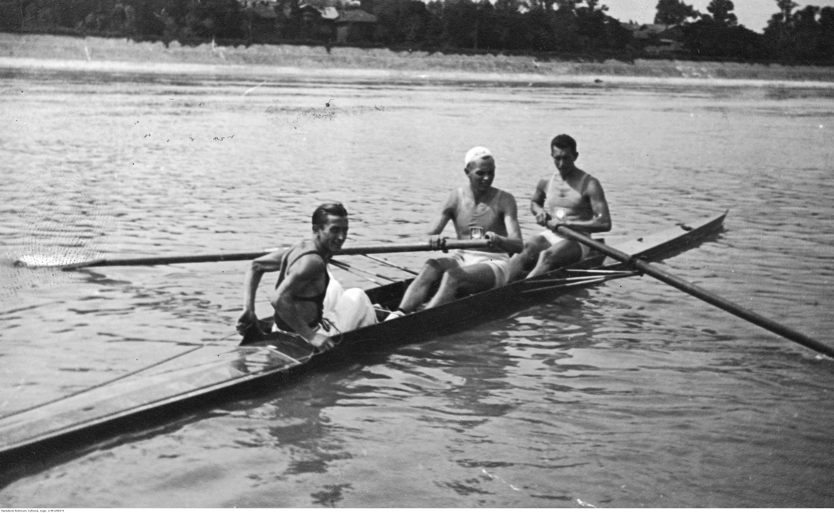 1933 European Rowing Championships in Budapest. Janusz Ślązak, Jerzy Braun and Jerzy Skolimowski (from right) during the competition.